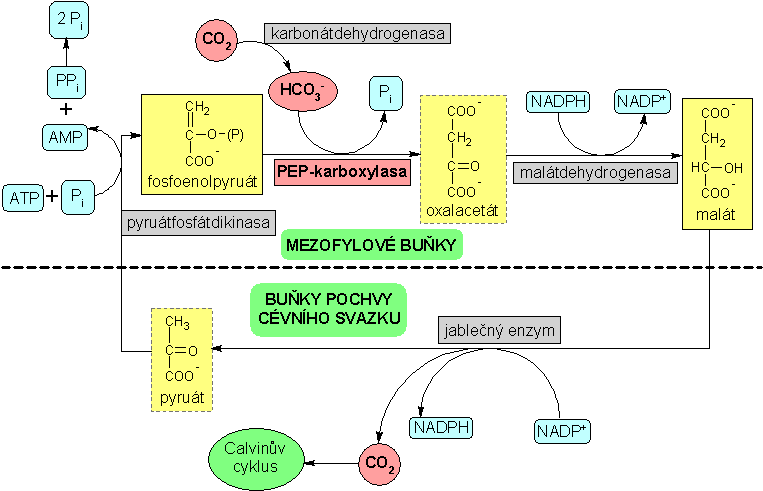 Hatch-Slack cycle (C4 carbon fixation)